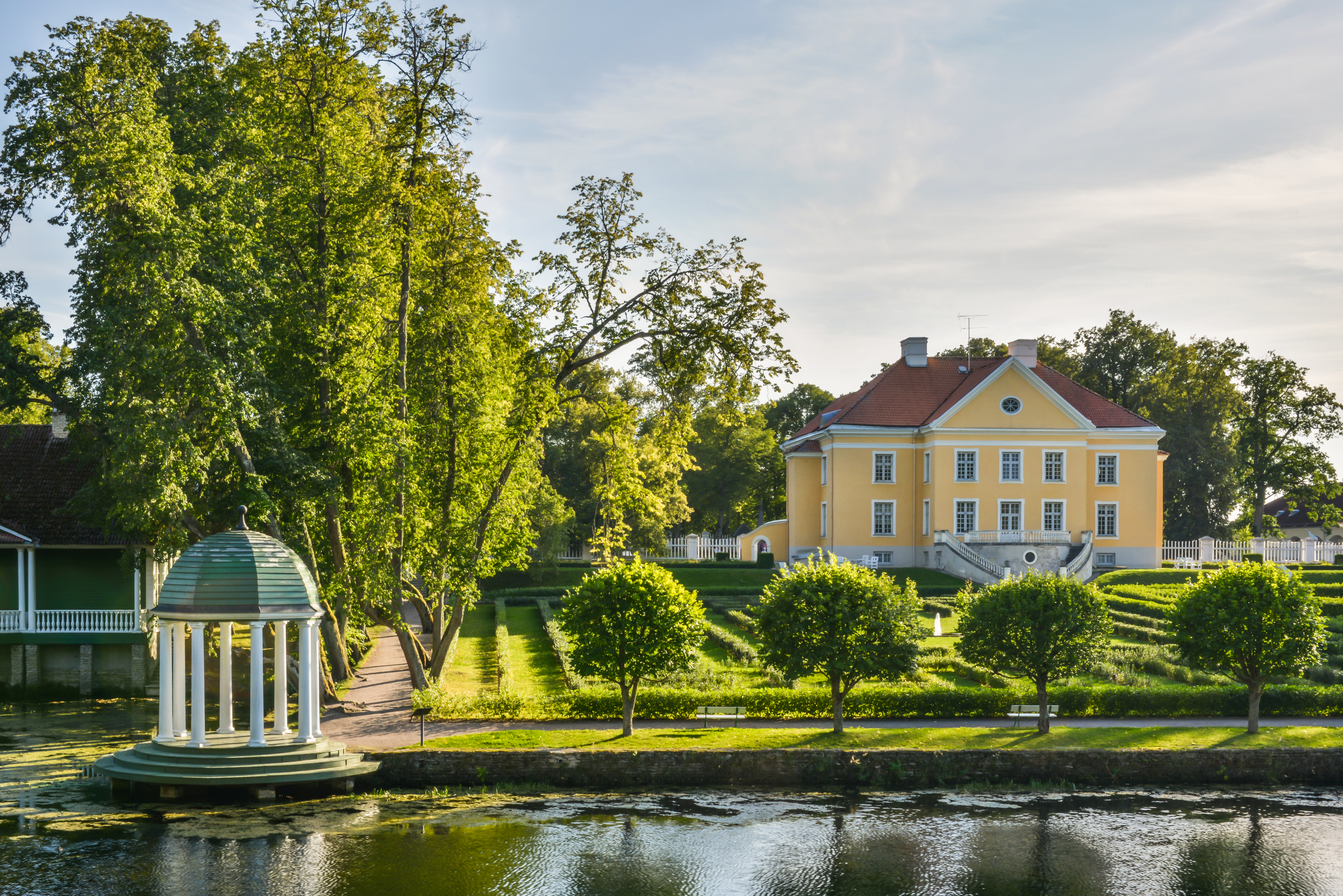 Palmse manor house, park and park buildings